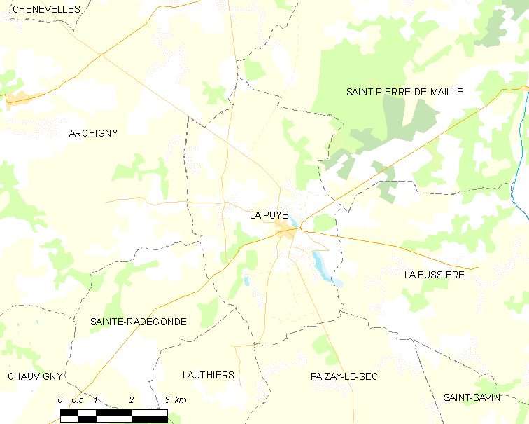 Map of French municipality La Puye